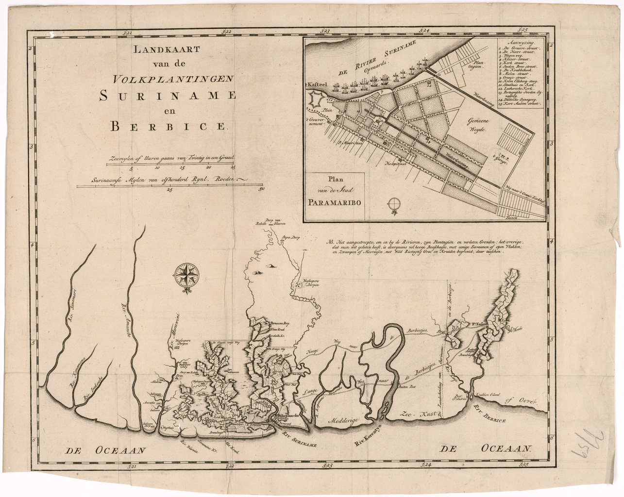 This 18th-century map shows the Dutch plantations in Suriname and Berbice. The map is oriented with the north at the bottom. The names ascribed to locations outside the neatly demarcated plantations suggest resistance to Dutch domination by local Indians, indentured servants, and slaves imported from Africa. They include several places marked “rebel villages,” “village of runaways,” and “village of rebel slaves.” The inset map in the upper right gives a detailed view of Paramaribo, the chief city and port of Suriname. The numbered key lists the main streets, along with the locations of the city hall and main (Dutch Reformed) church, the Lutheran church, and Portuguese and German synagogues. Berbice, located along the Berbice River, was established in 1627 as a Dutch colony under the authority of the Dutch West India Company. In 1814, during the Napoleonic Wars, ownership of the colony passed to the British, who merged it with the neighboring colony of British Guiana. The country gained its independence as Guyana in 1966. Suriname, which bordered Berbice to the east, was seized by Dutch forces from England in 1667, during the Second Anglo-Dutch War (1665–67). It remained a Dutch possession until 1975, when it became an independent country. Netherlands--Colonies; Plantations